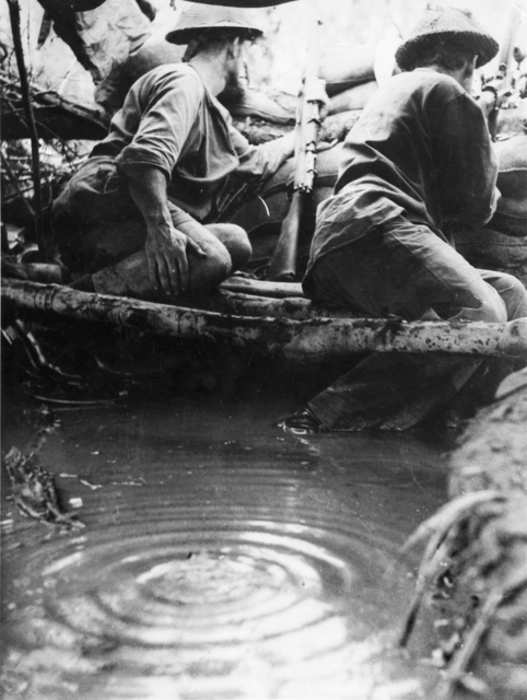 AWM caption: "1943-01-25. PAPUA. SANANANDA AREA. MEN OF 2/7TH CAVALRY REGIMENT IN A FOX HOLE, A FORWARD SECTION POST LESS THAN 30 YARDS FROM JAPANESE POSITIONS, SURROUNDED BY MUD AND WATER. THE PHOTOGRAPHER WHO TOOK THIS PICTURE COULD HEAR JAPANESE SOLDIERS TALKING, BUT COULD NOT SEE THEM."